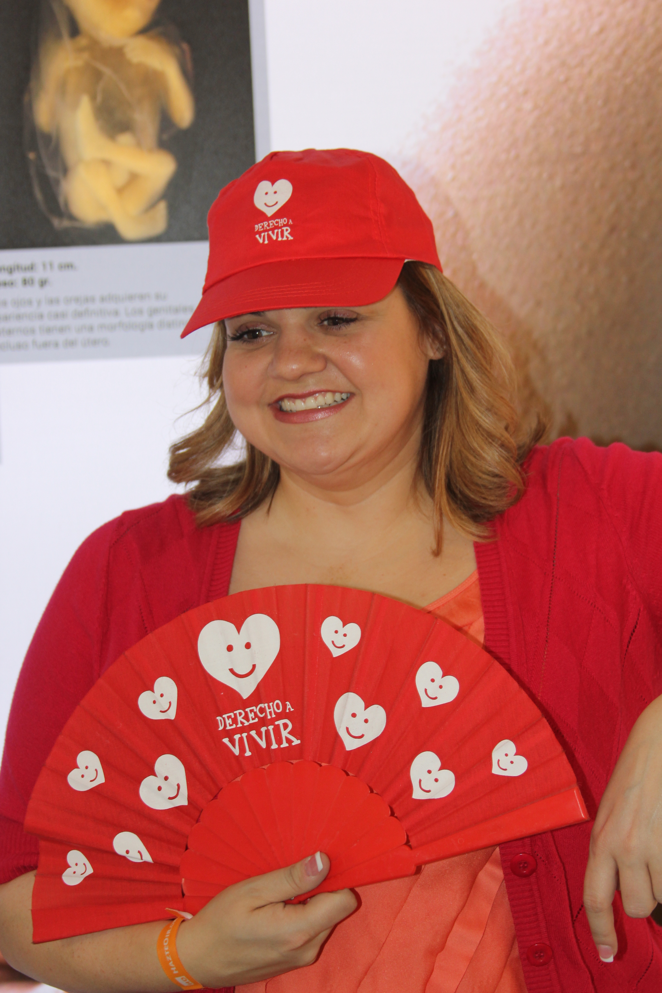 American author and anti-abortion activist Abby Johnson (activist) speaks at Spanish anti-abortion organization HazteOir.